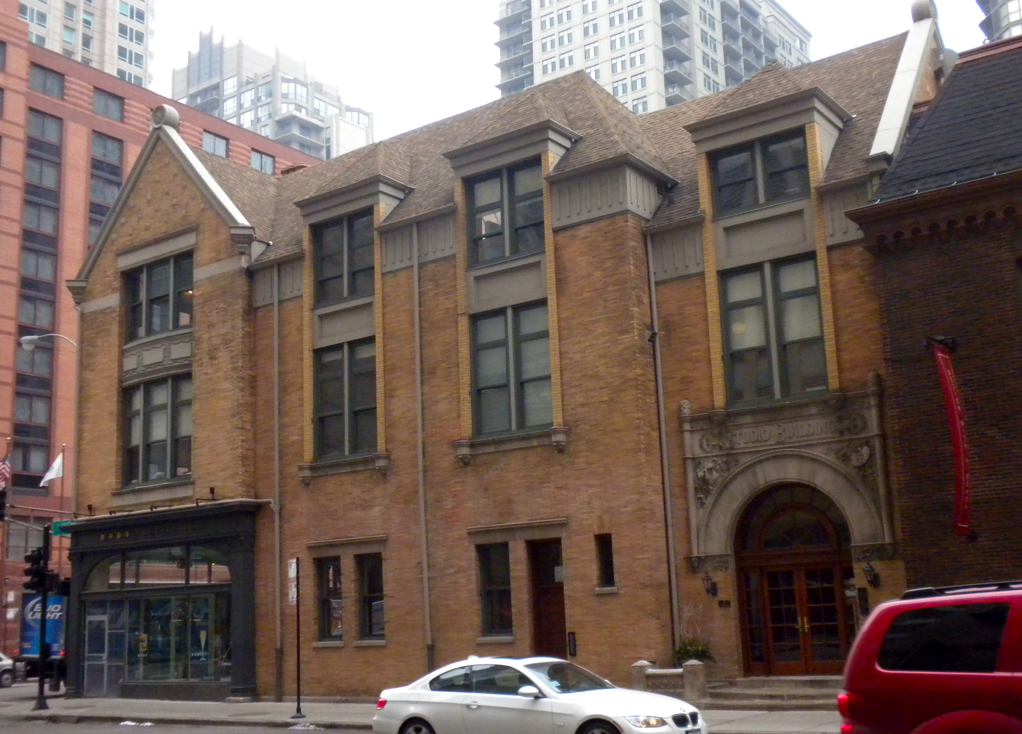 Tree Studio Building on Near North Side of Chicago. On the NRHP since December 16, 1974 4 E. Ohio Street